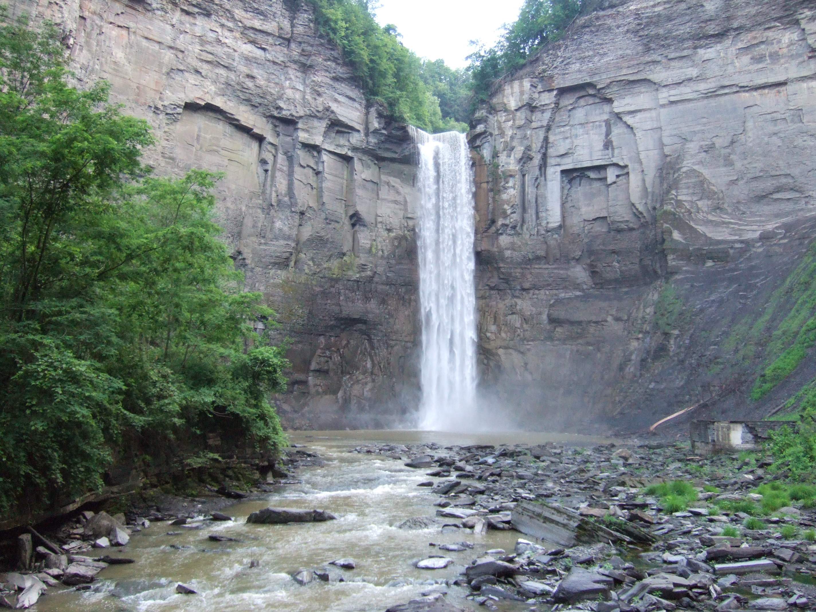 This is one of the tallest waterfalls east of the Rocky Mountains, at 215 feet (66 meters). This is located in the Finger Lakes region of Central New York State.